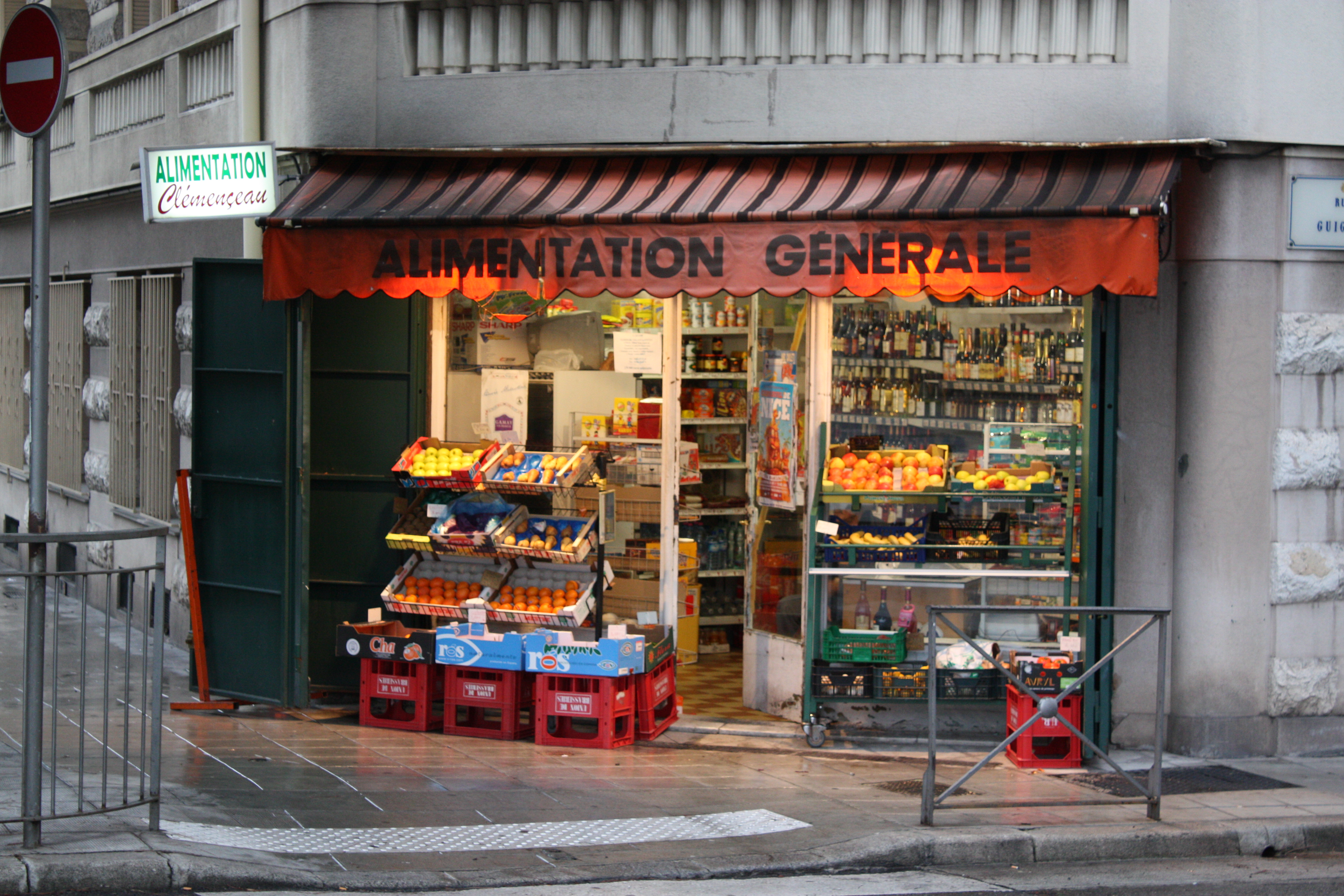 Grocery store in Nice.